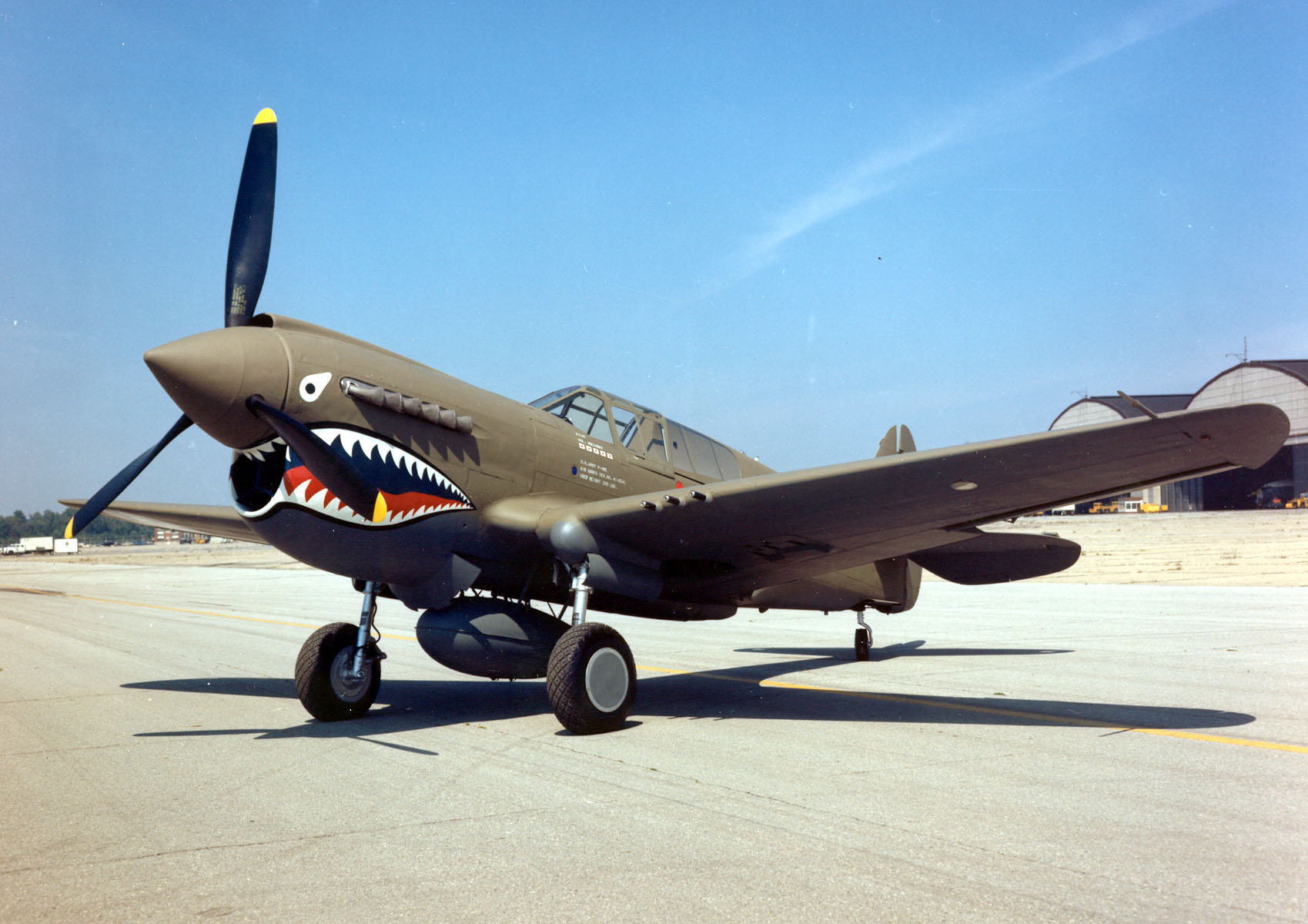 A U.S. Army Air Force Curtiss P-40E Warhawk of the National Museum of the United States Air Force in Dayton, Ohio (USA).